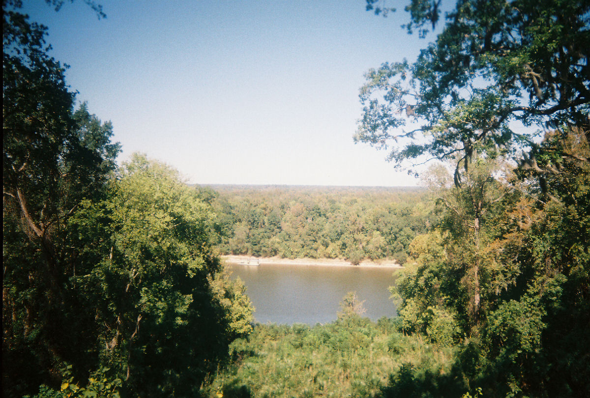 View of the Apalachicola river from behind the Gregory House in Torreya State Park